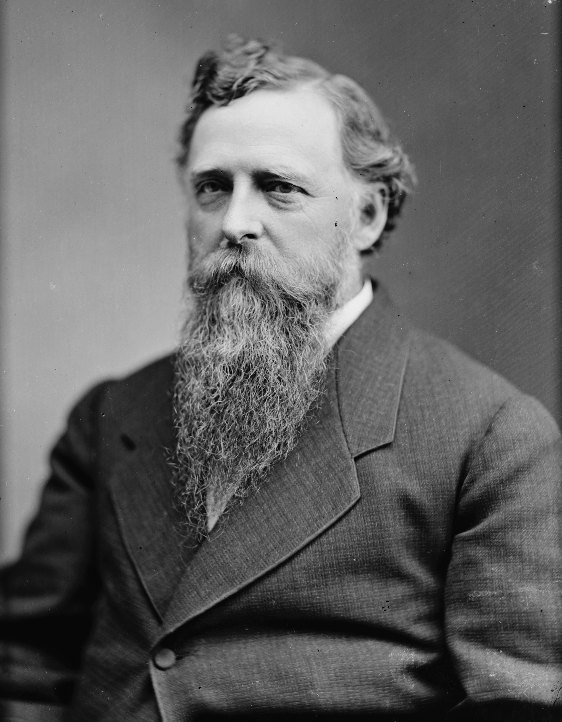 Thaddeus C. Pound (1833–1914). Member of the Wisconsin State Assembly and the Wisconsin State Senate, Lieutenant Governor of Wisconsin 1870–1872, member of the United States House of Representatives from Wisconsin from 1877 until 1883. Library of Congress description of photograph: "Pound, Hon. Thad C. of Wisc.".